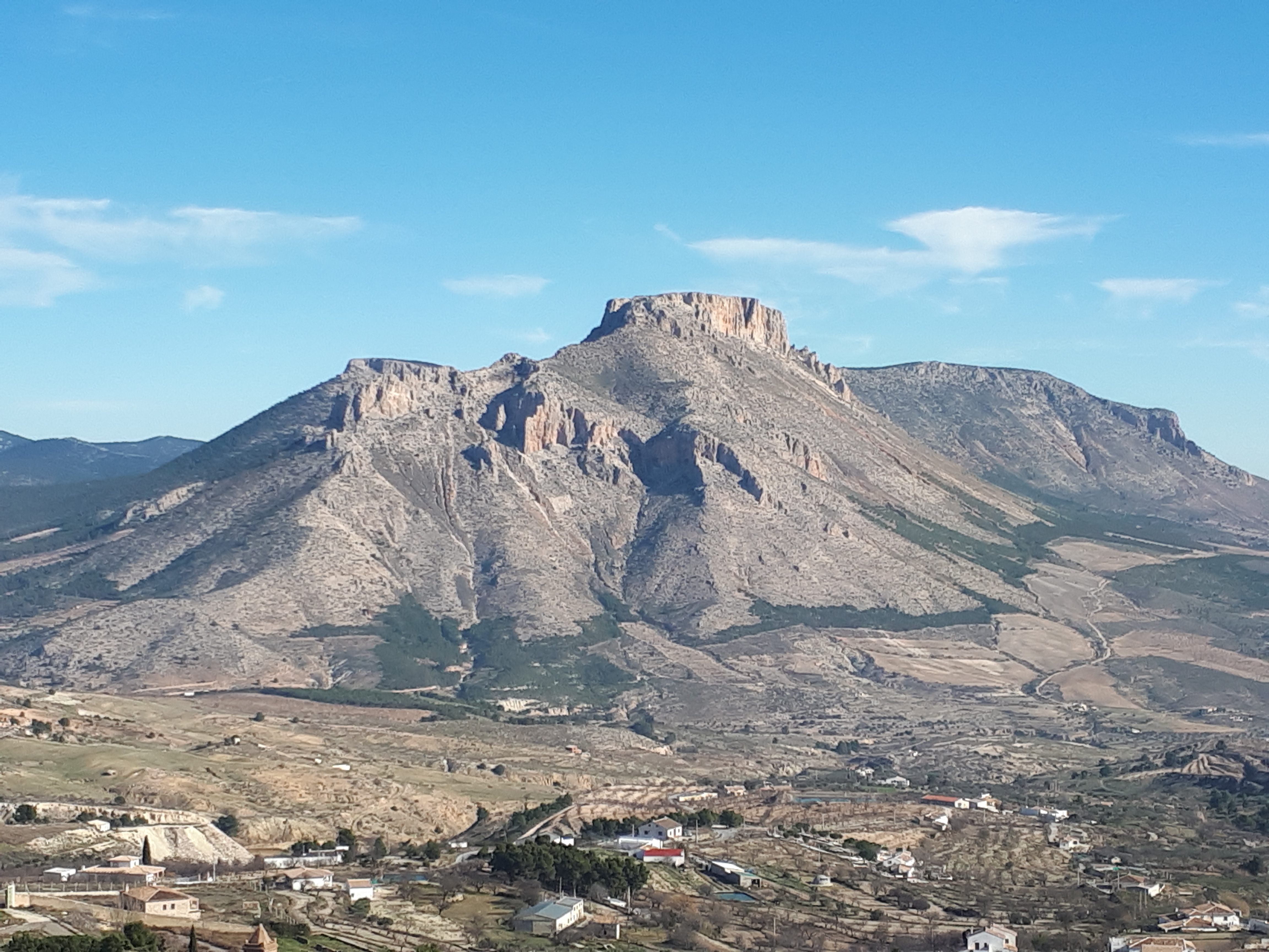 Part of the Sierra Maria - Los Velez taken from the Velez-Blanco castle